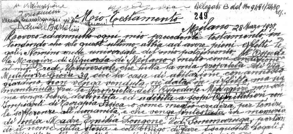 Giuditta Sommaruga's will, 1957